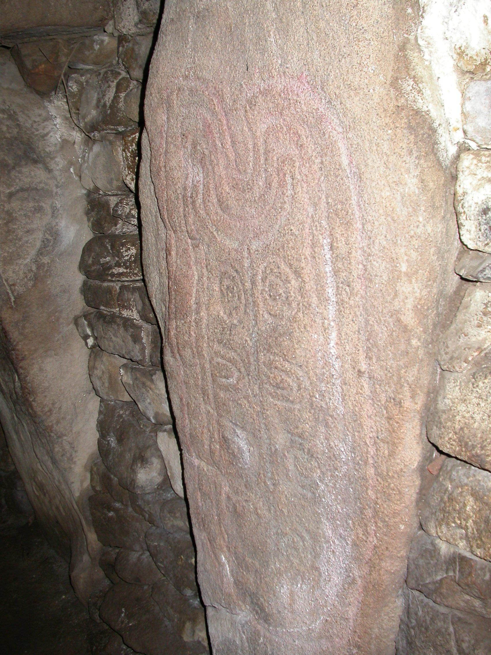 Les Pierres Plates